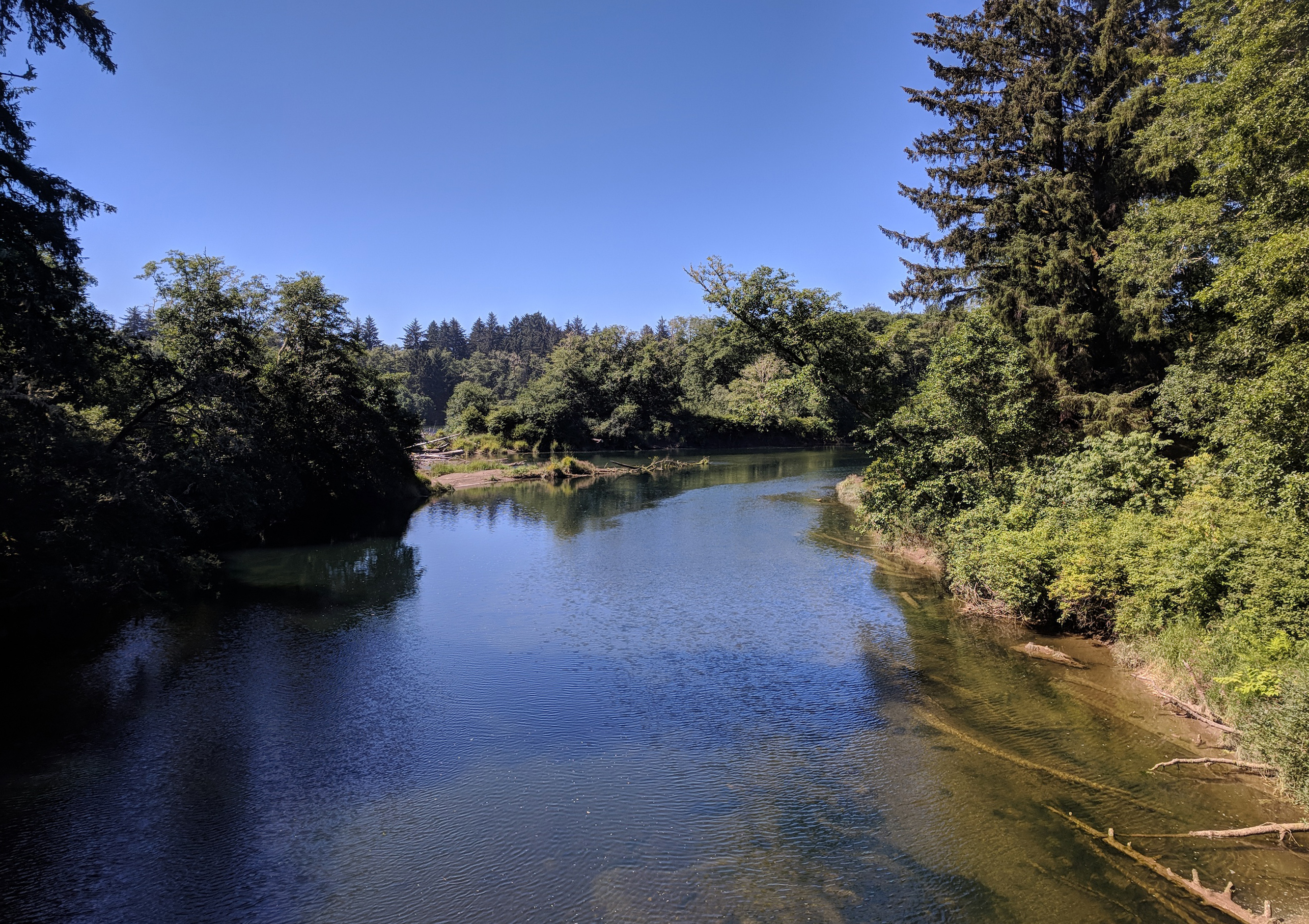 View of the mouth of the Dickey River, that is, its confluence with the Quillayute River, from the bridge at Mora Road, within the Olympic National Park